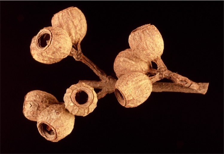 Fruit of Eucalyptus ligulata